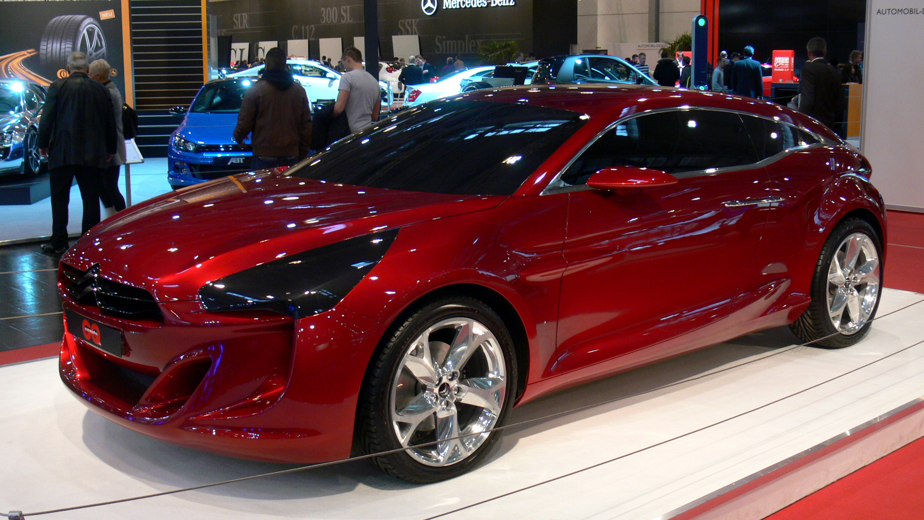 Citroën GQ (Concept Car) at the Essen Motor Show 2010